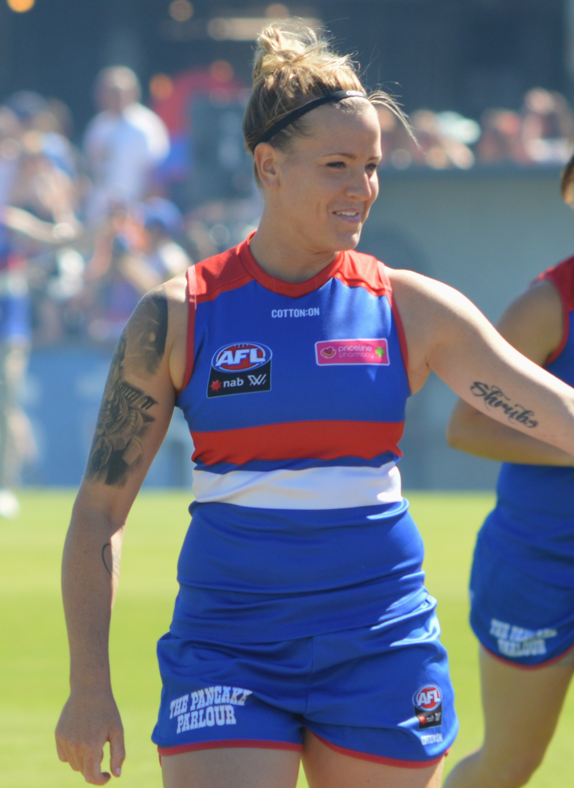 Hannah Scott during the round 1, 2018 AFL Women's match between the Western Bulldogs and Fremantle.